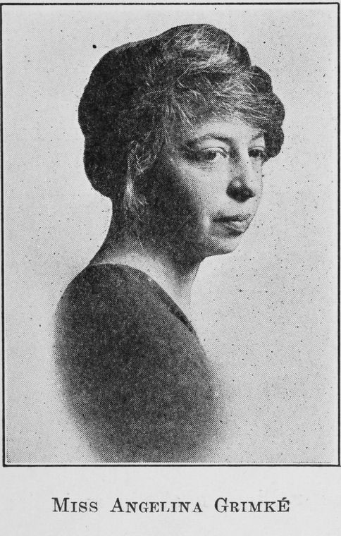 Angelina W. Grimké from a 1923 publication Negro Poets and their Poems